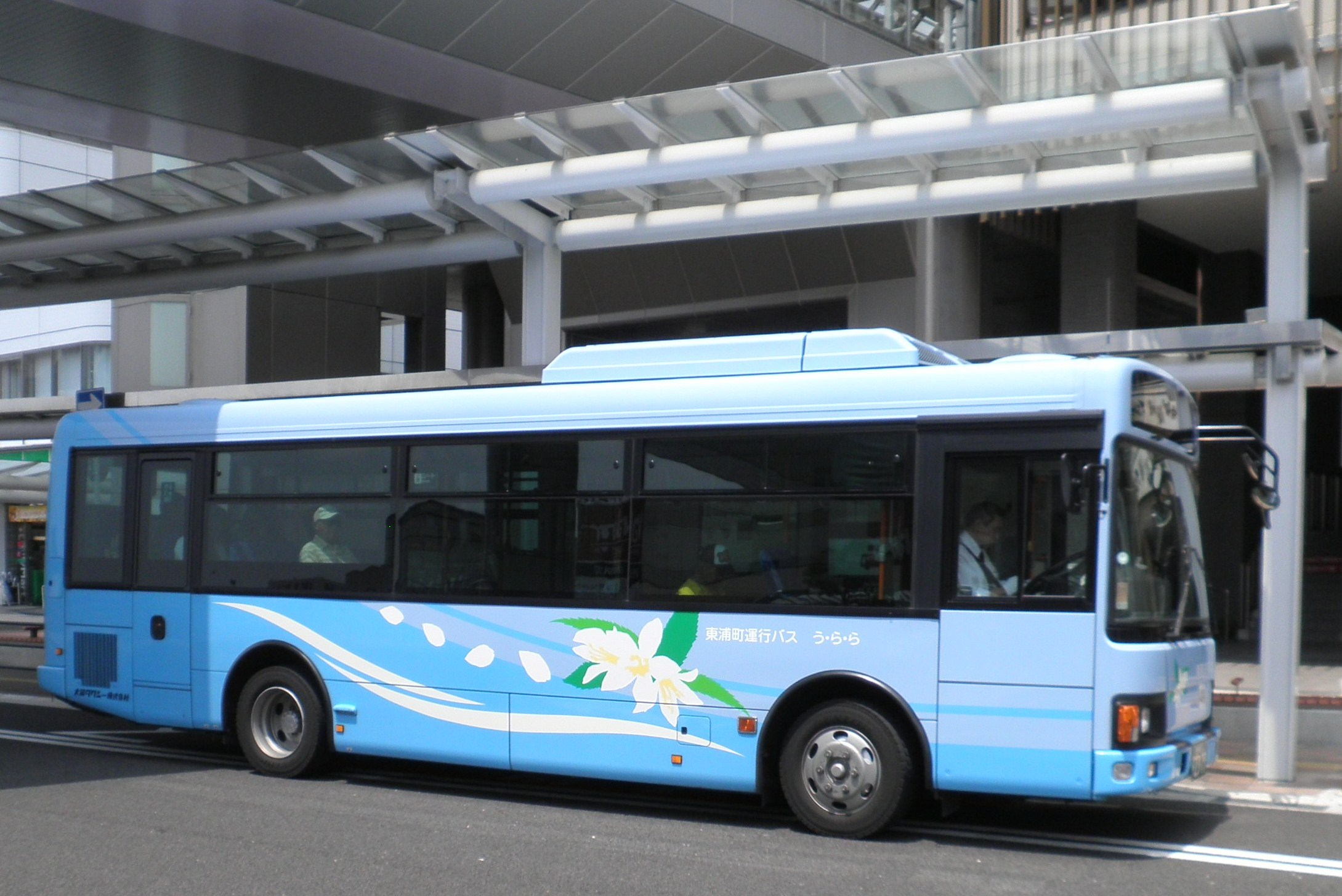 愛知県東浦町のコミュニティバス「う・ら・ら」